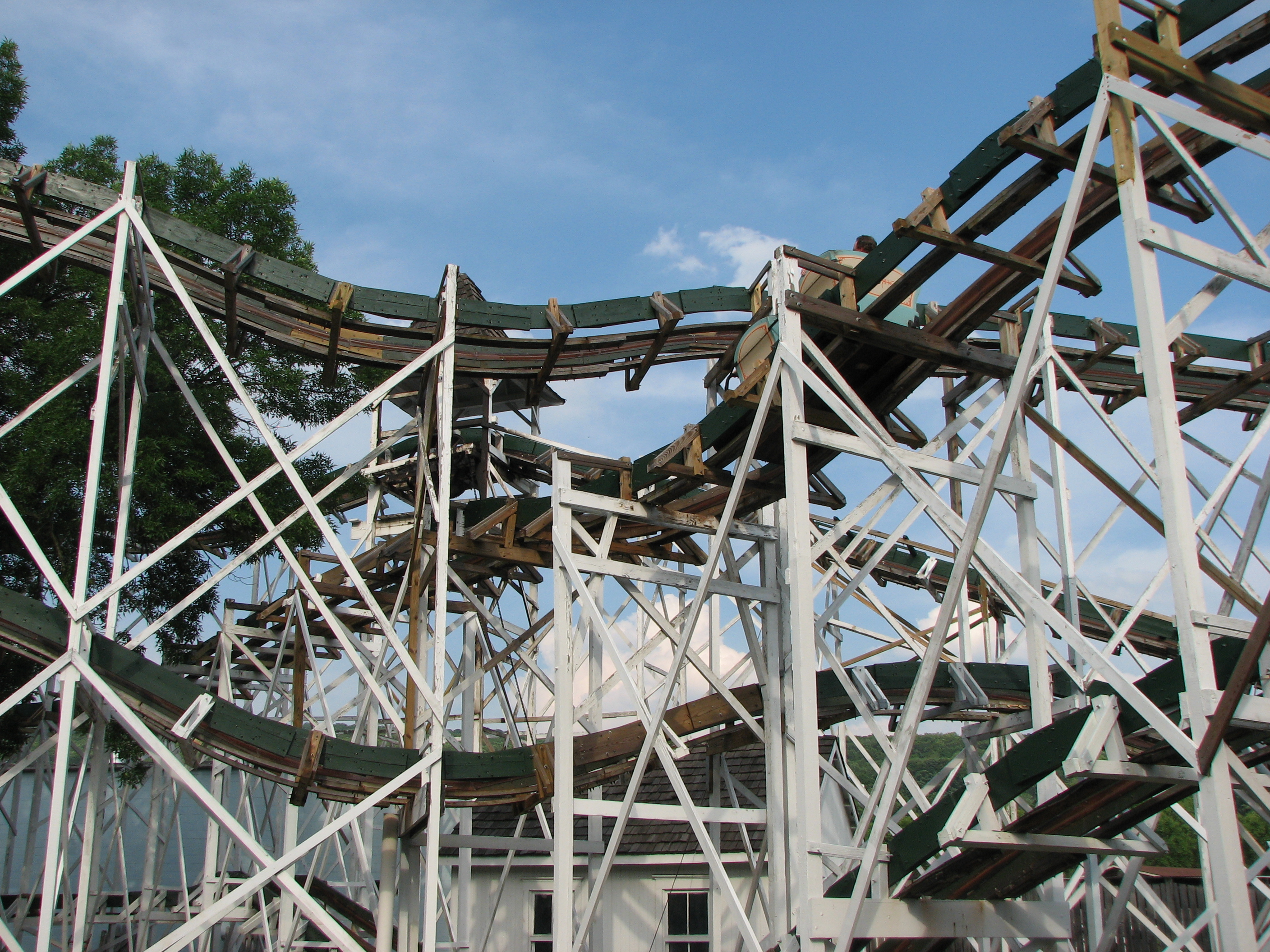 Track every direction